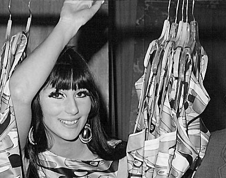 Cher playing a dress designer in the television program The Man From U.N.C.L.E.. The episode is "The Hot Number Affair".